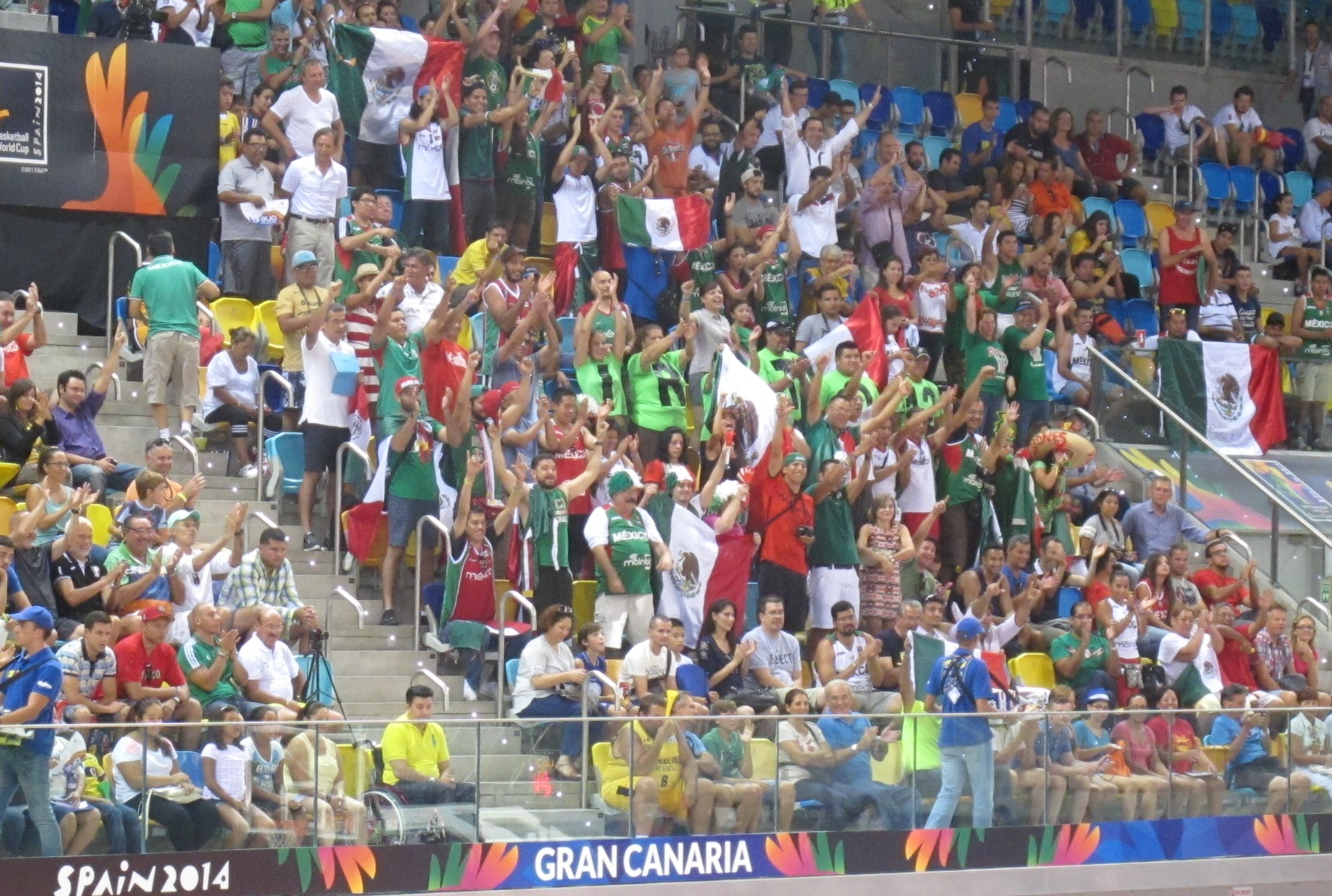 taken during 2014 Basketball World Cup